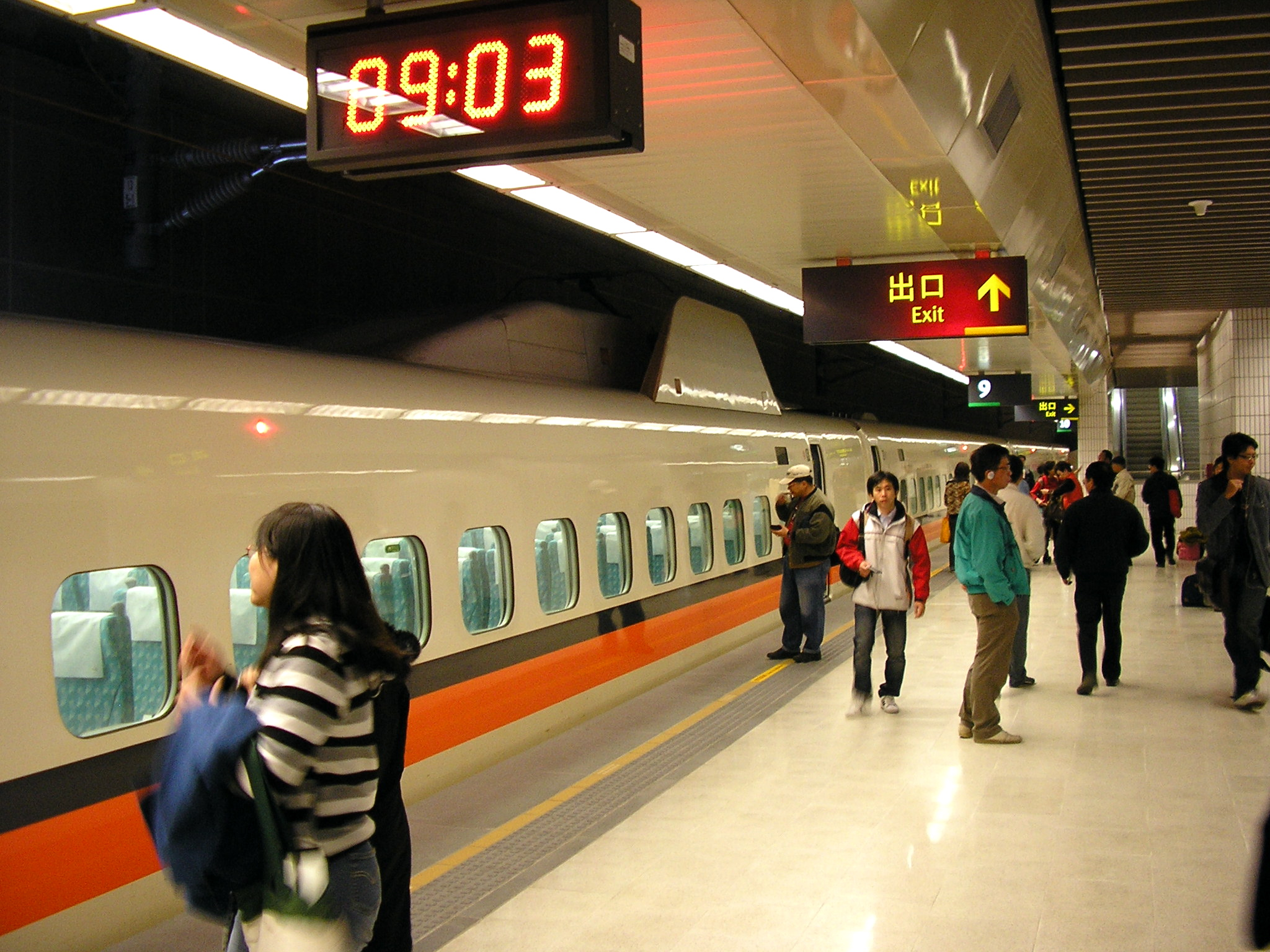 Passengers on the platform at THSR Banciao Station.